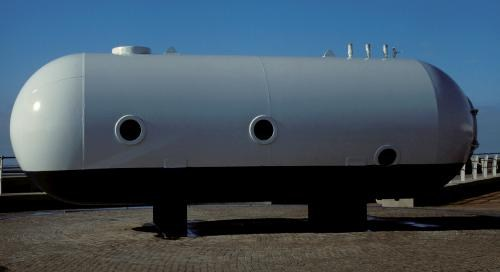 Frankenstein Detail